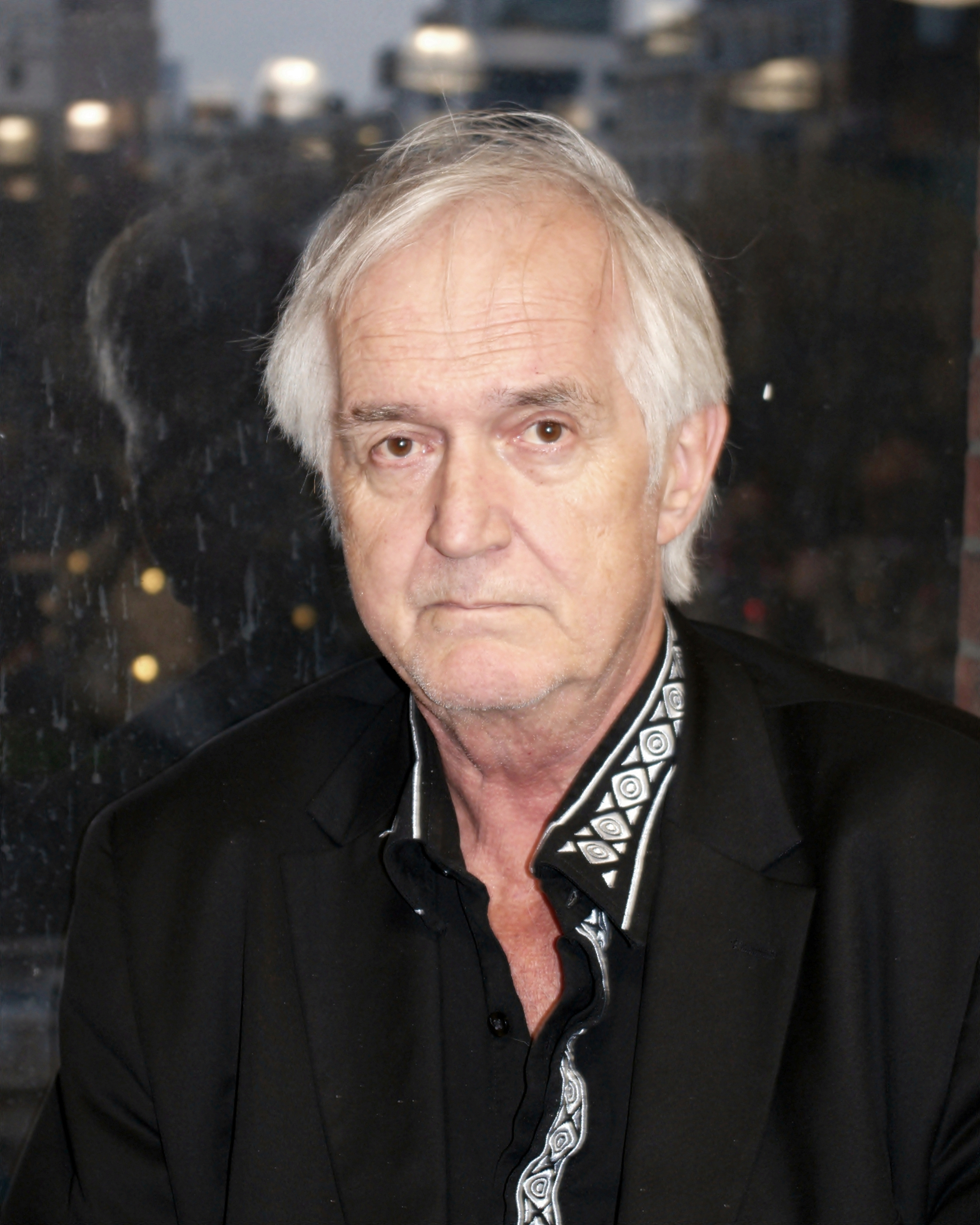 Henning Mankell in New York at Barnes & Noble Union Square.